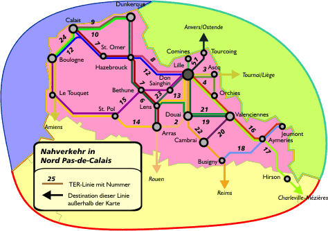 Map of Local Railways in Nord Pas-de-Calais, France